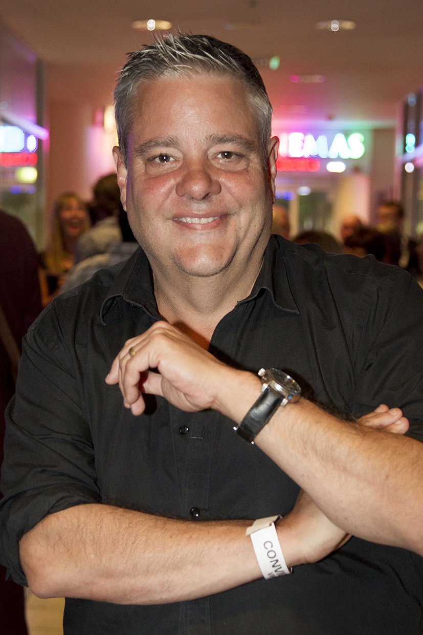 Mikey Robins at the Premiere of “CONVICT” the movie 20 Jan 2013